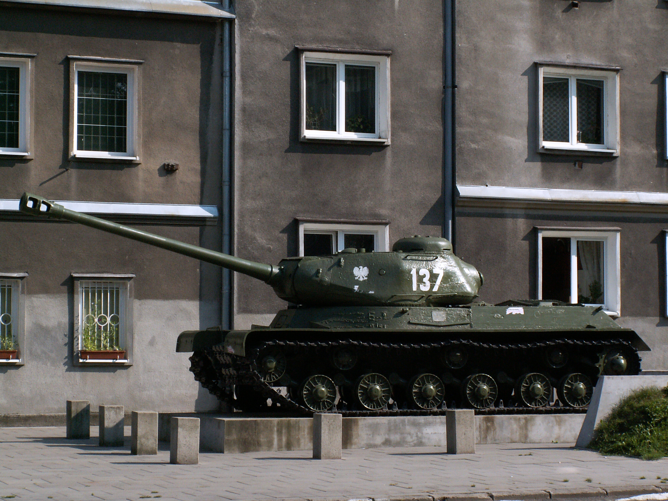 Tank IS-2 ,os. Gorali,Nowa Huta,Krakow,Poland